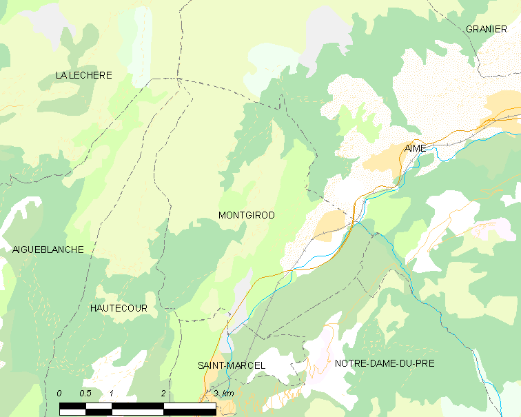 Map of French municipality